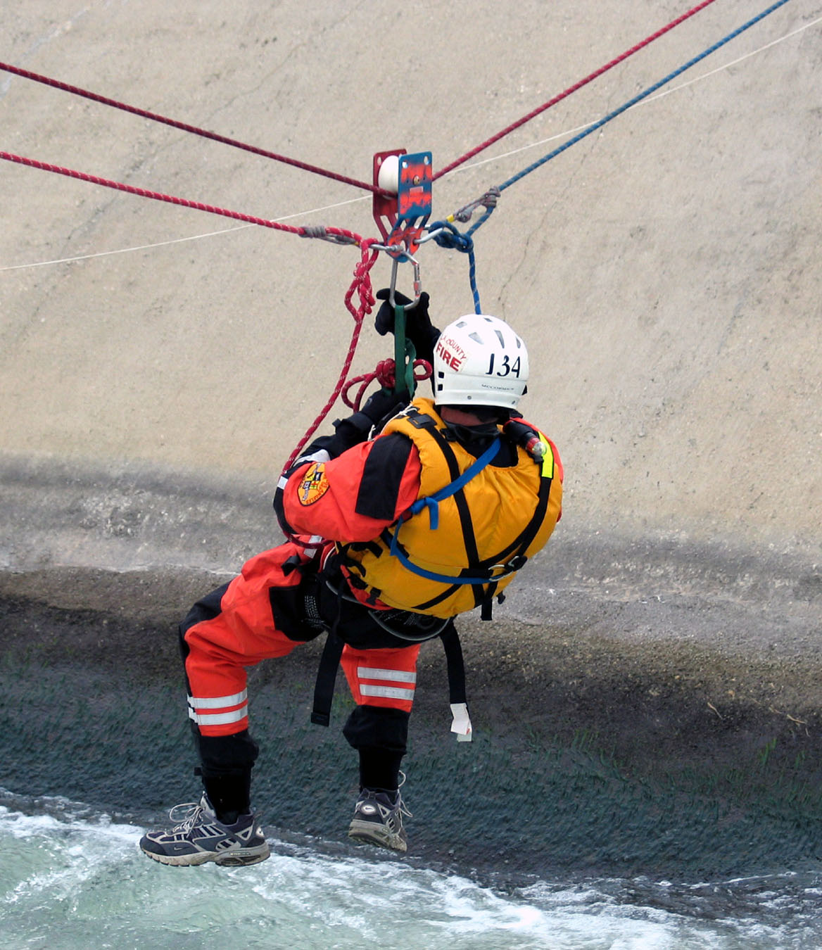 Los Angeles County, CA, November 20, 2003 -- Firefighters with L.A. County's water rescue team practice their skills at a company drill. Photo by: Jason Pack/FEMA News Photo